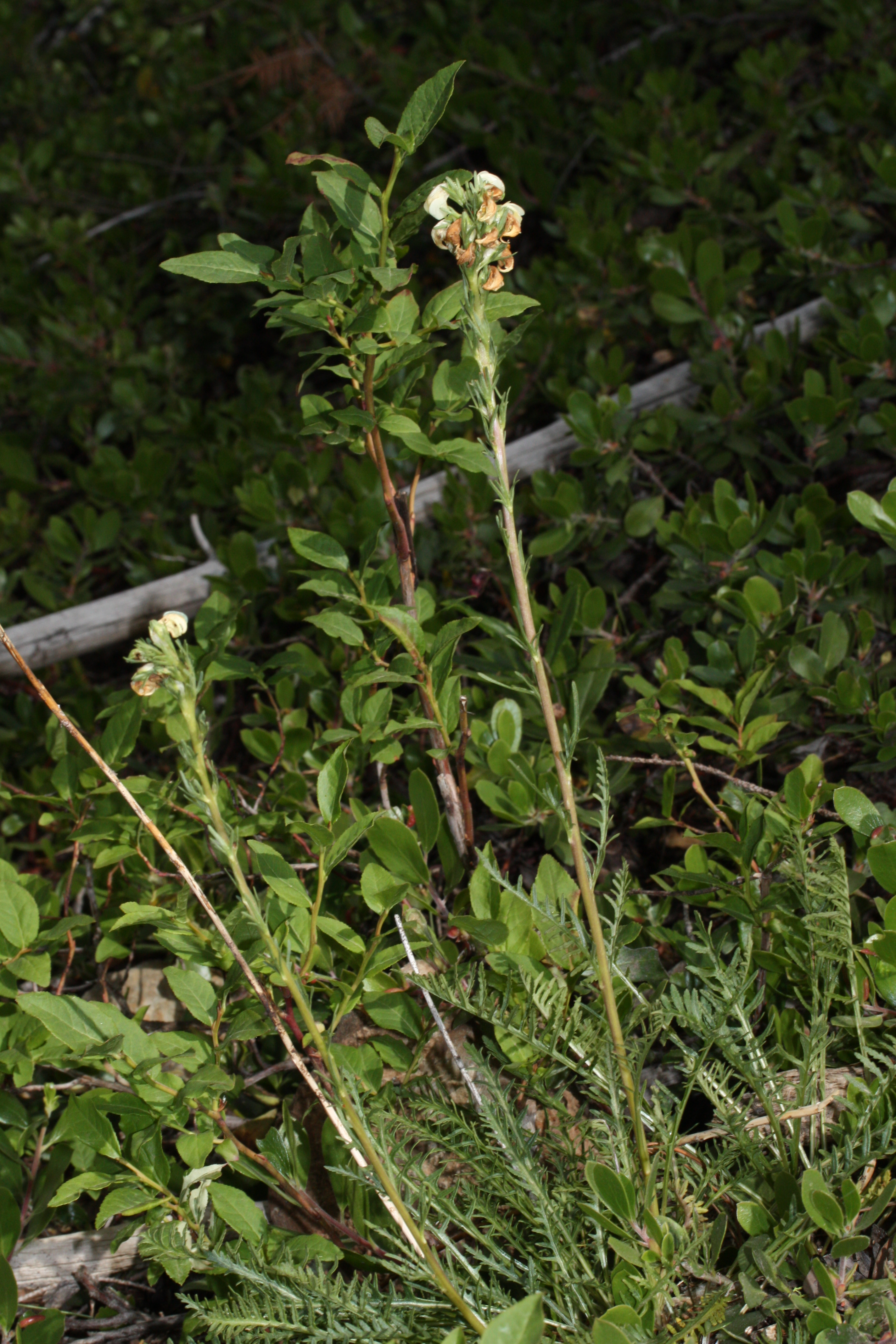 Coiled Lousewort, White-coiled Beak Lousewort